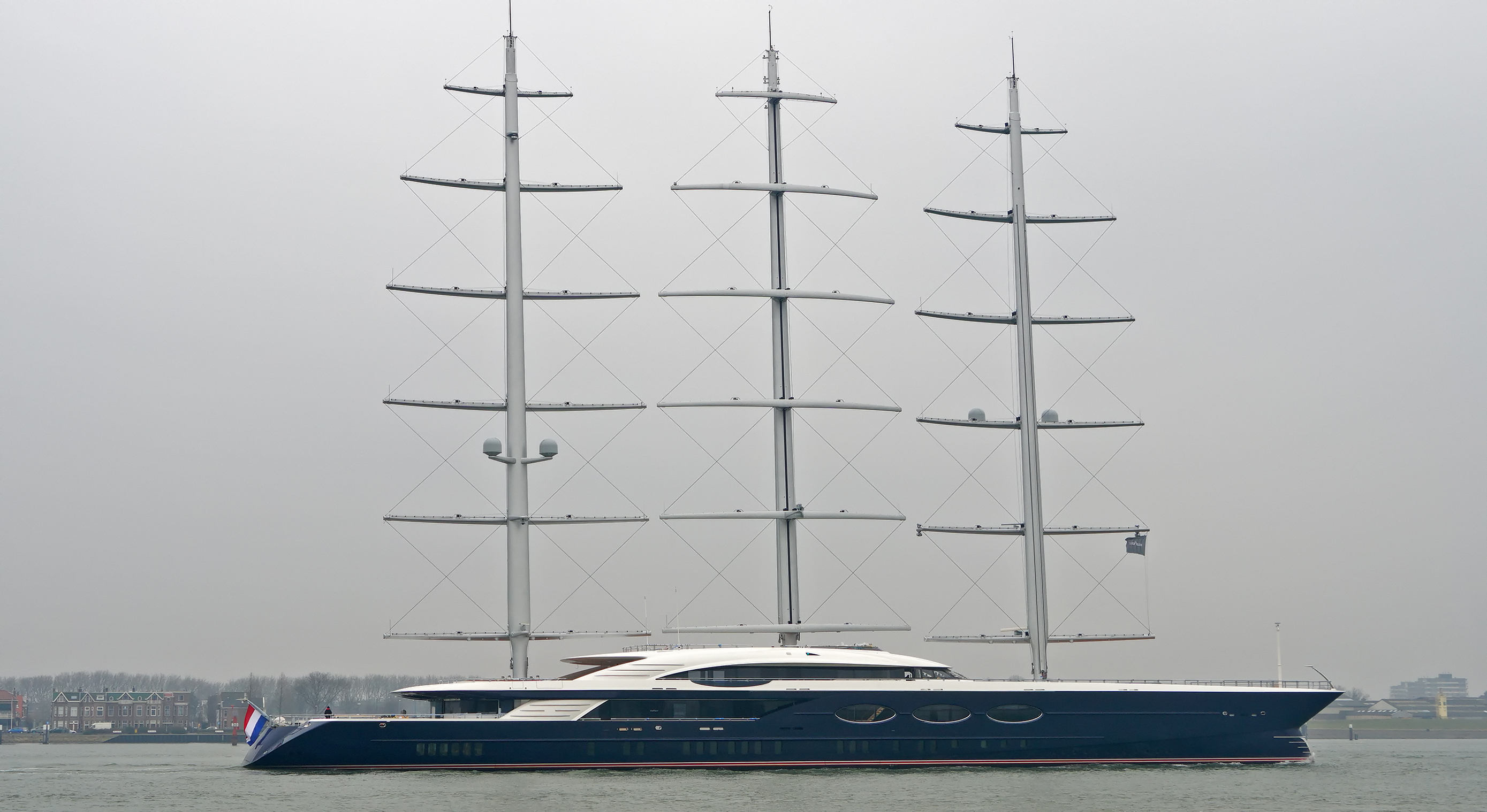 Oceanco Black Pearl (project Y712) with Magma Structures carbon fibre masts in sea trials on the Rhine